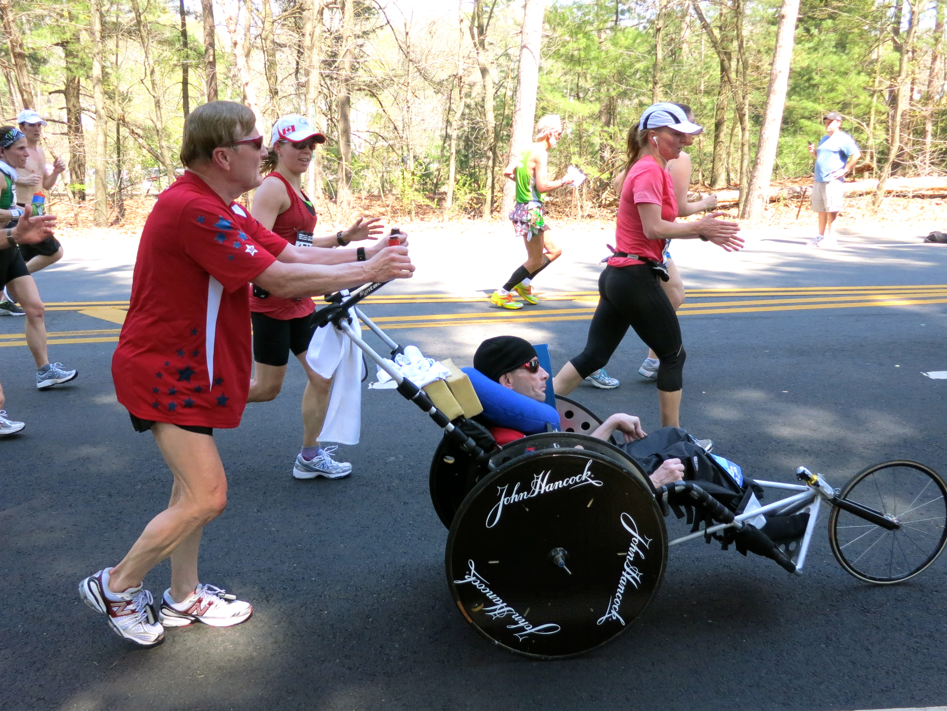 Team Hoyt at 12.5 miles on the Marathon course just past Wellesley College